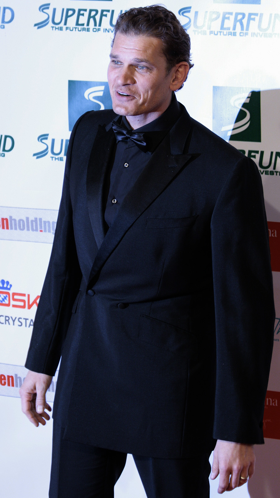 Götz Otto at the Women's World Award 2009 (Wiener Stadthalle, Vienna, Austria).